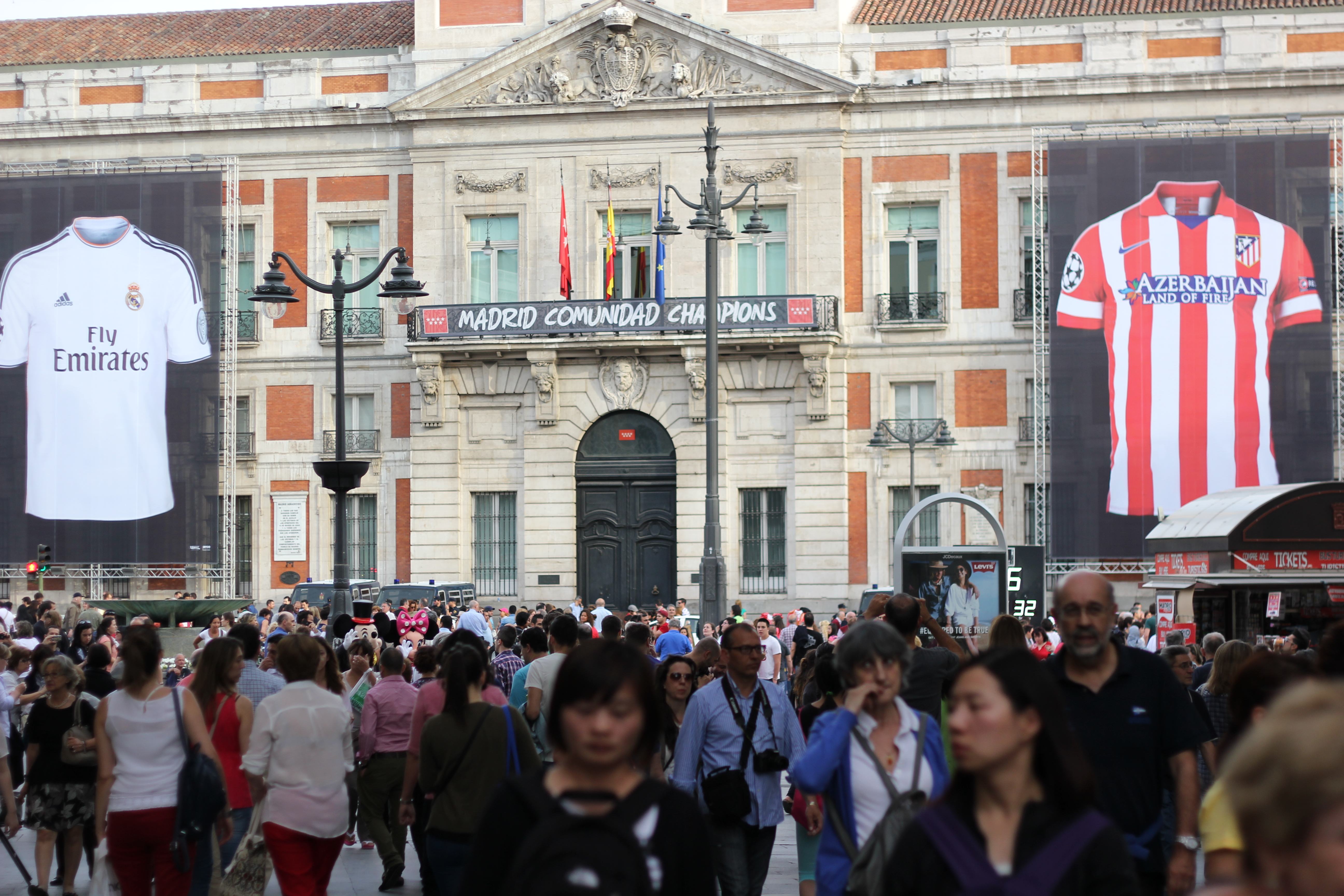 Real Madrid v Atletico Signs Community of Madrid. Government buildings.